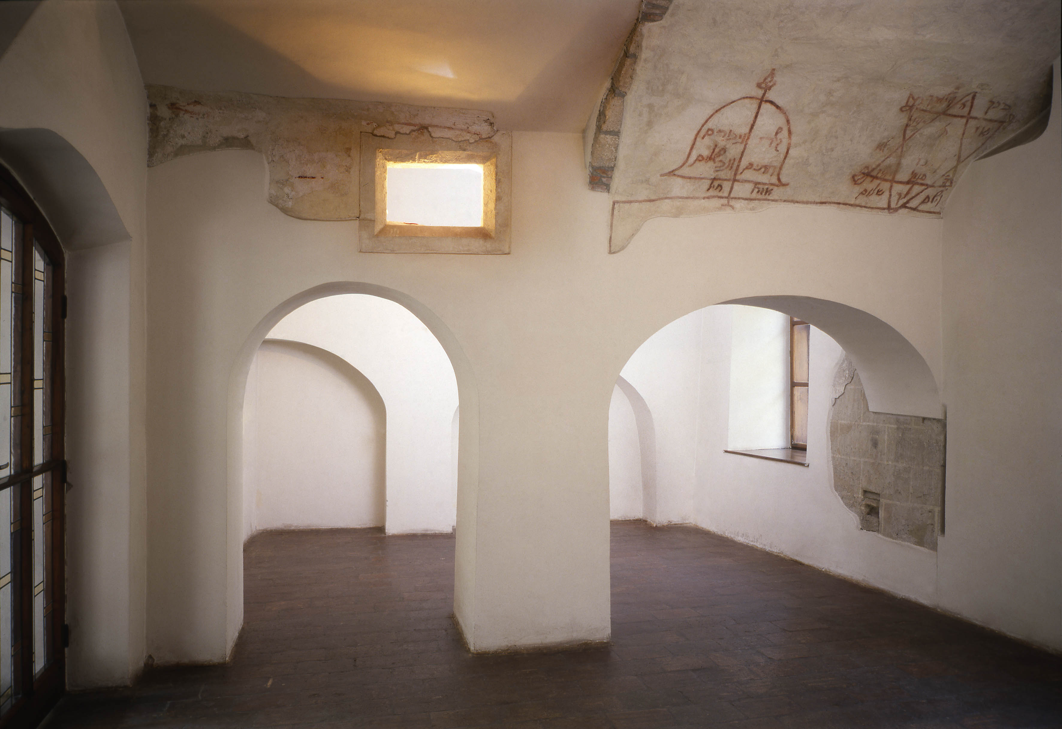 Medieval Synagogue Buda, #18. Táncsics Mihály Street, Budapest